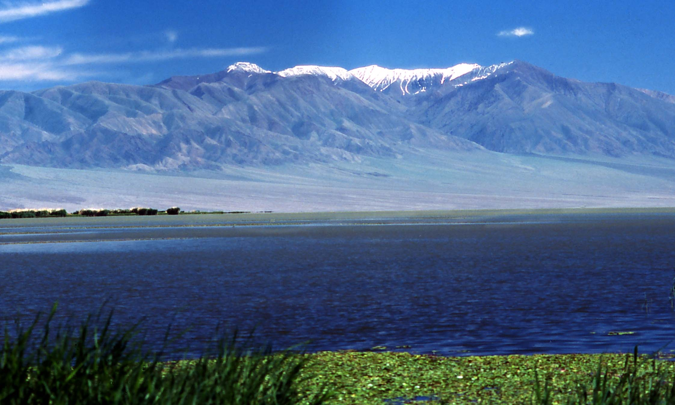 Jargalant Mountain. Jargalant Mountain overlooking Khar Us Nuur in Hovd aimag., Hovd.